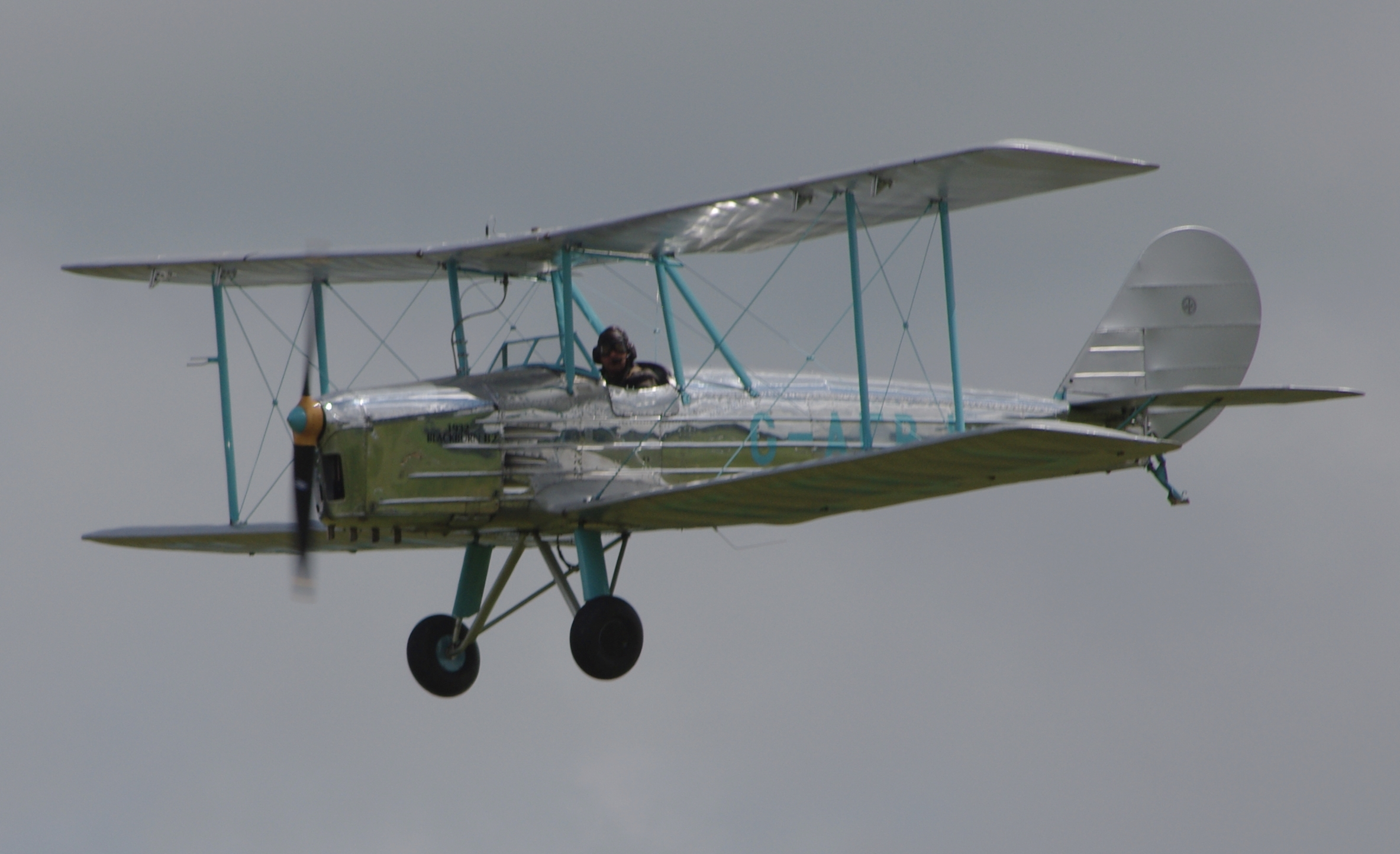 Blackburn B-2 from the Shuttleworth Collection flying at Old Warden in the 2009 Summer Show.